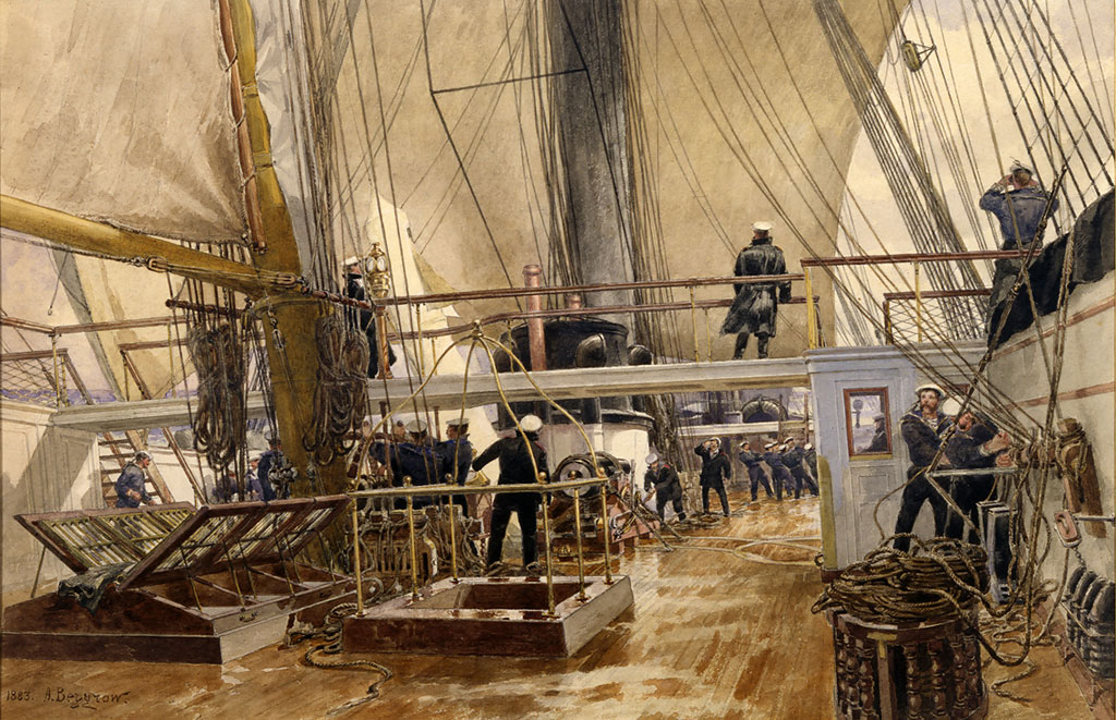 Alexander Karlovich Beggrov (1841-1914) On Deck Of The Frigate "Svetlana"